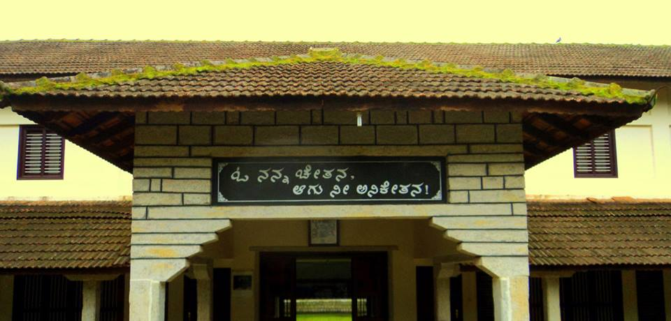 ಶತಮಾನೋತ್ಸವ ಭವನ